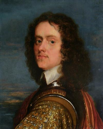 A portrait of Thomas Jermyn, 2nd Baron Jermyn, painted by John Weesop circa 1653.